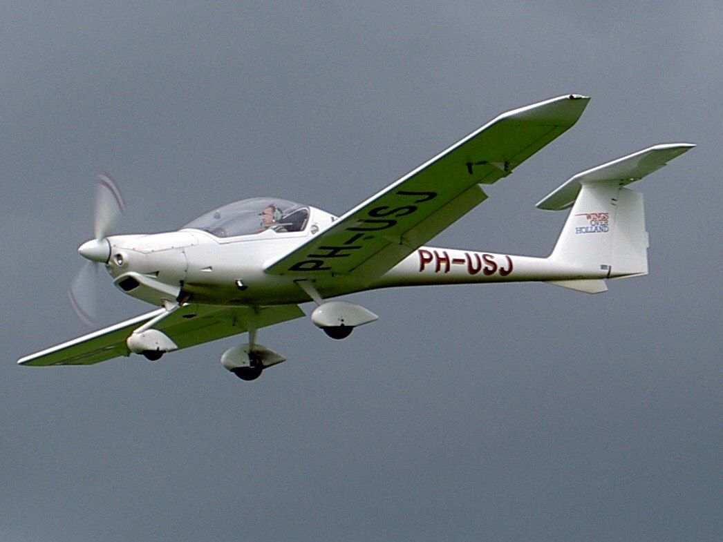 PH-USJ Hoac DV 20 Katana at Lelystad airport.